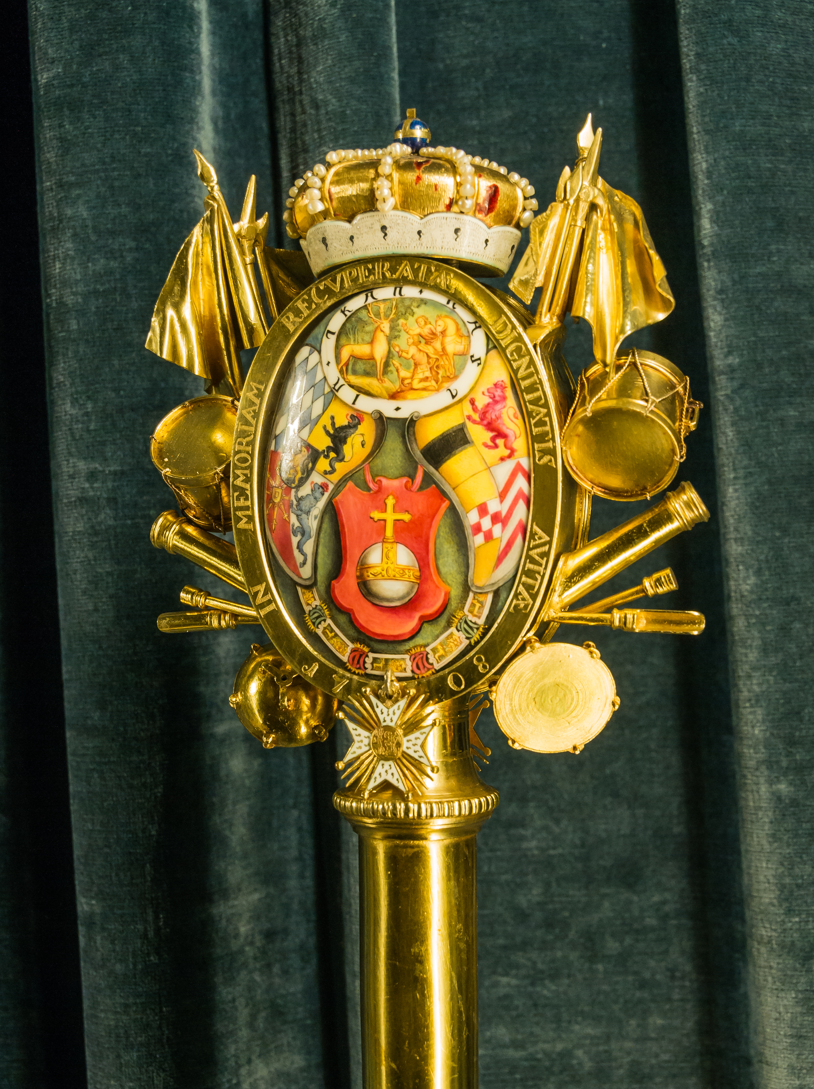 Top of the scepter of the Grand Master of the Chivalric Order of Saint Hubert, Schatzkammer, Residenz, Munich, Bavaria, Germany.